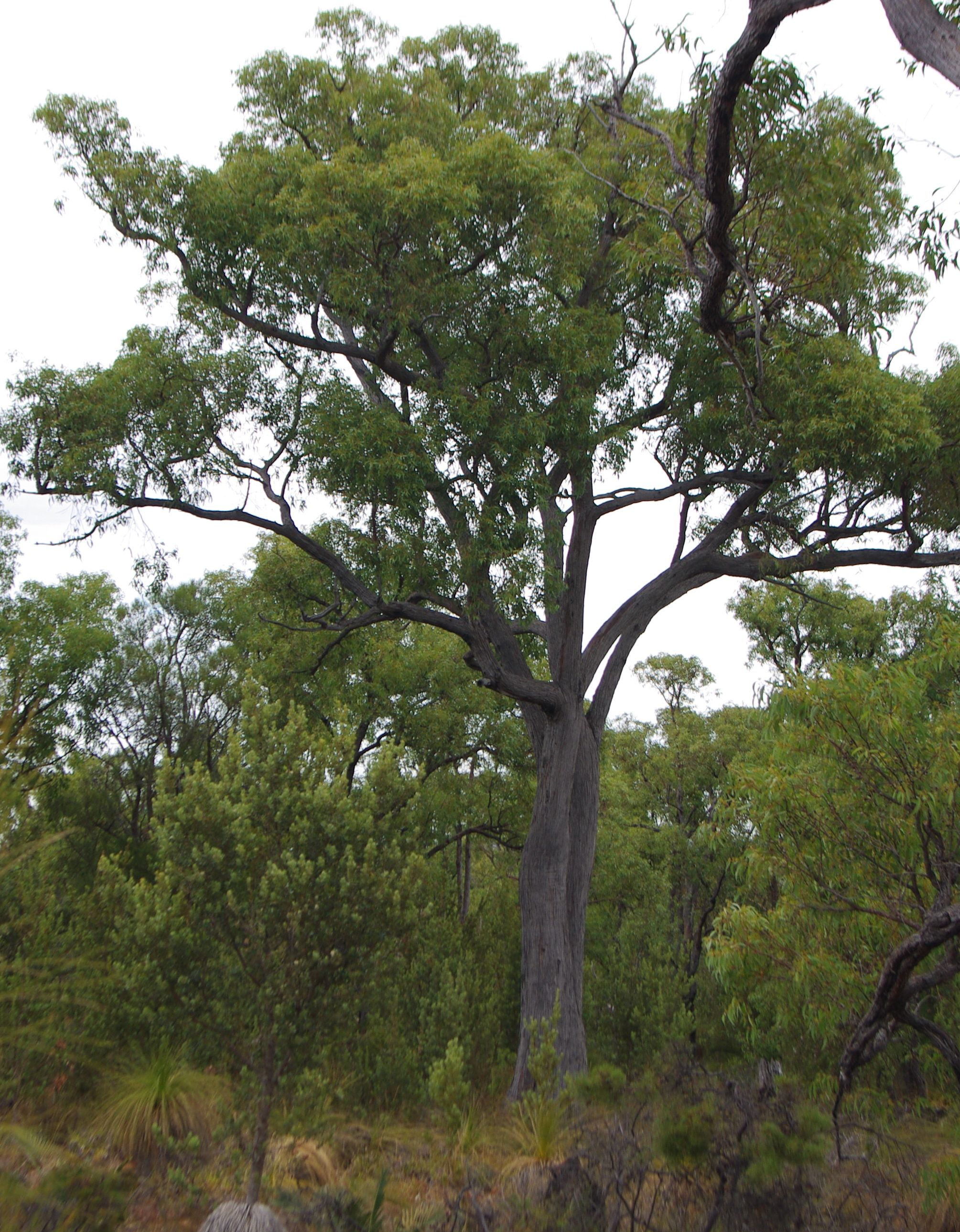 Jarrah (Eucalyptus Marginata) mature approx 25 metres high, on Greenmount Hill, Greenmount Hill National Park, Western Australia